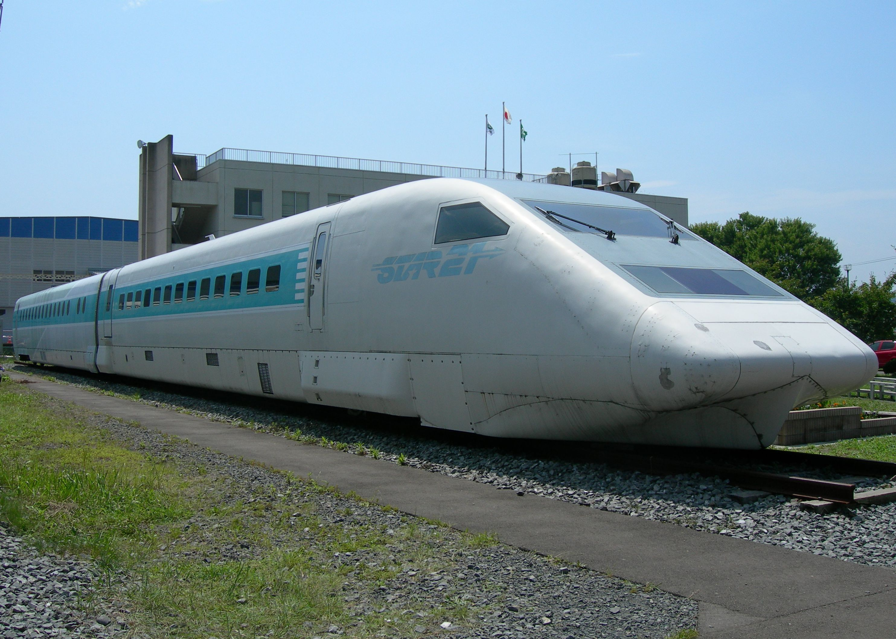 JR East Class 953 "STAR21" experimental shinkansen cars 953-5 and 953-1 at Sendai Shinkansen Depot